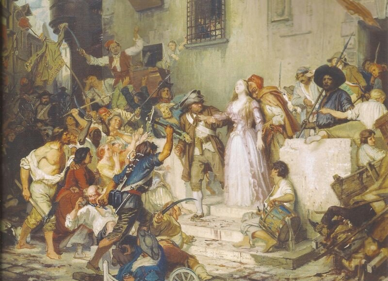 Death of the princess de Lamballe, by Gaetano Ferri.